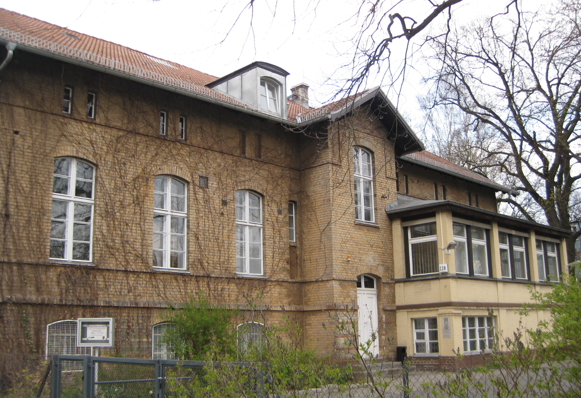 The facade house Eichborndamm 238.